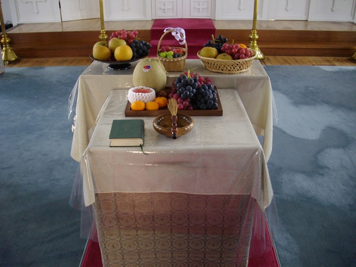 Produce laid on an altar for the Blessing of First Fruits on the Great Feast of the Transfiguration of Jesus, taken in a Japanese Orthodox church, 2008.